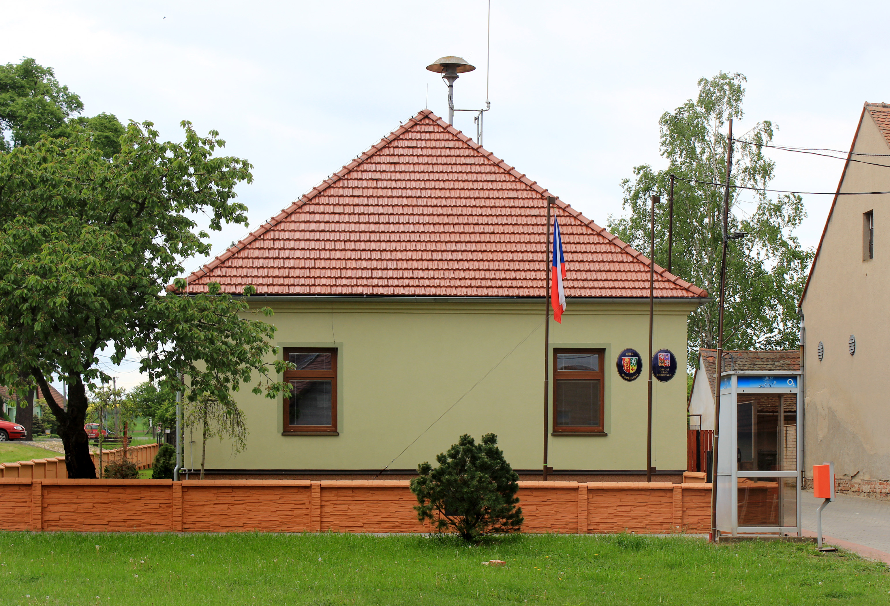 Municipal office in Dobřínsko, Czech Republic.